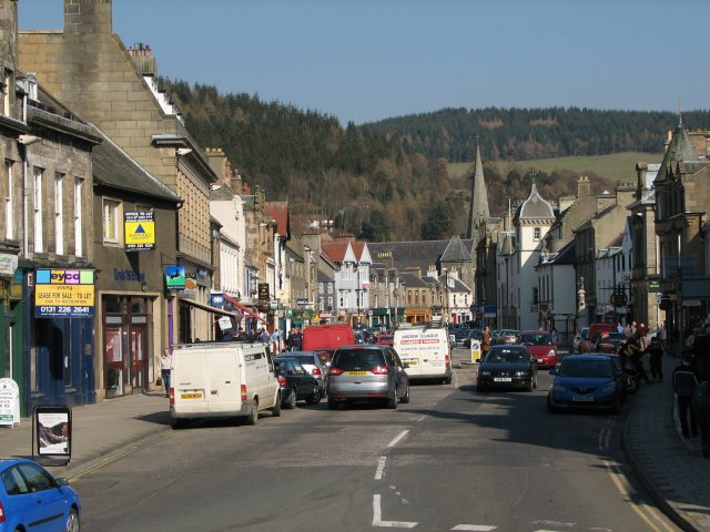 Peebles High Street Viewed from the steps outside The Old Parish Church of Peebles.